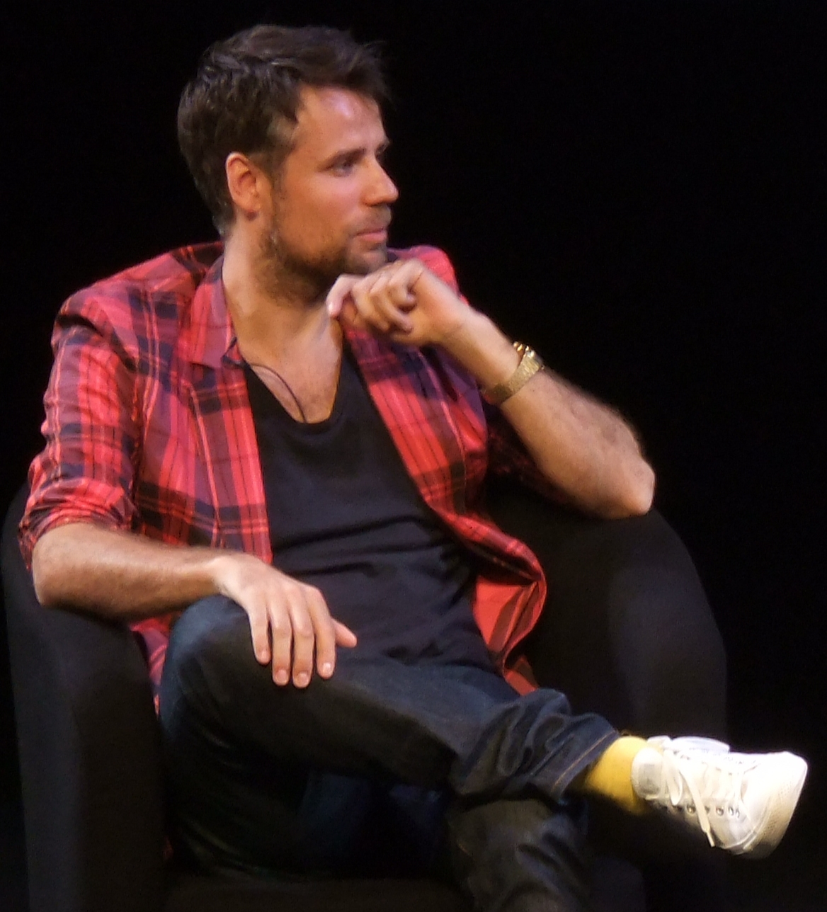 Richard Bacon cropped from a photo with Jeremy Kyle, at Radio Festival 2010.